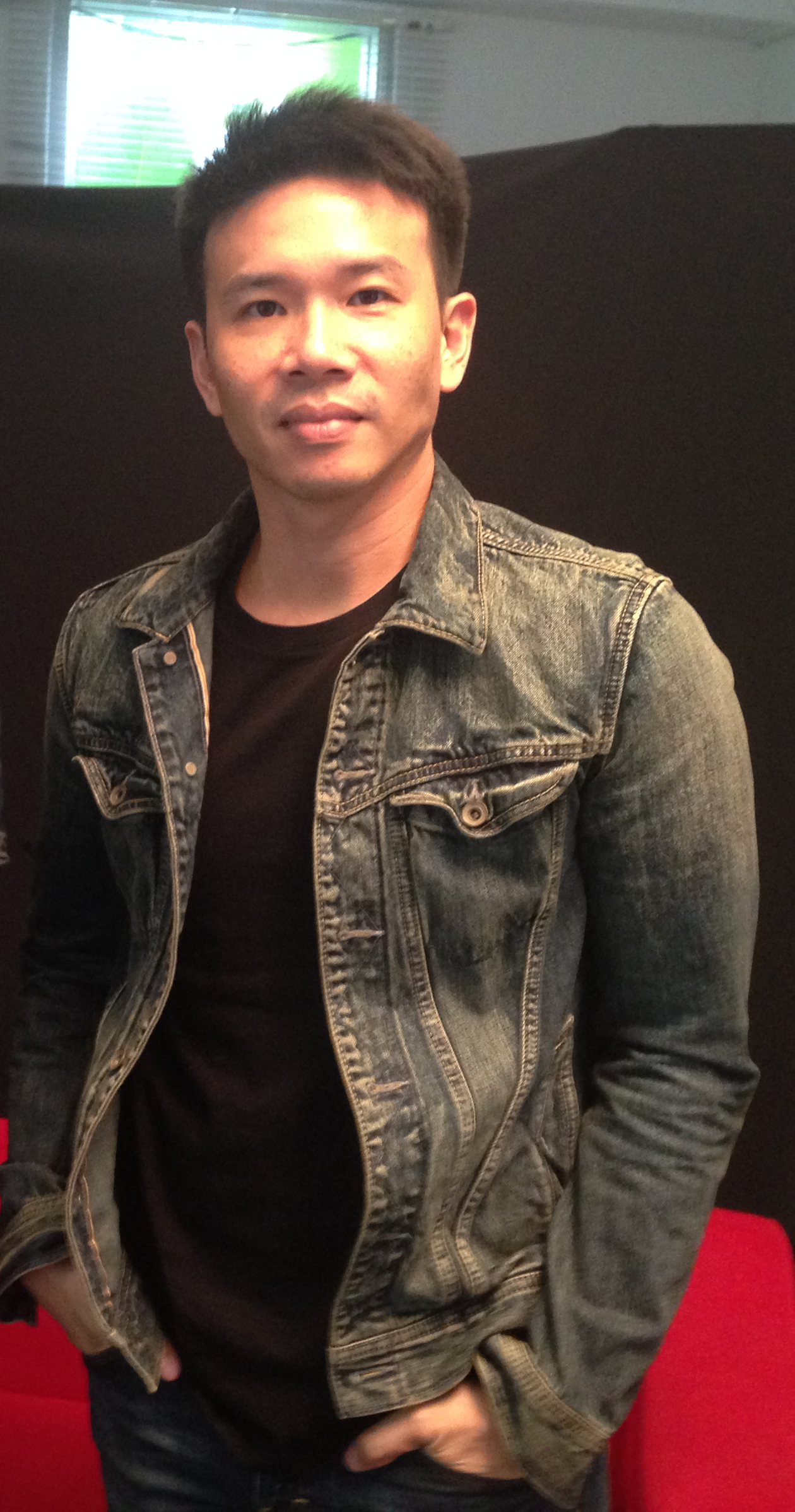 Norathep Masaeng at VERY TV.